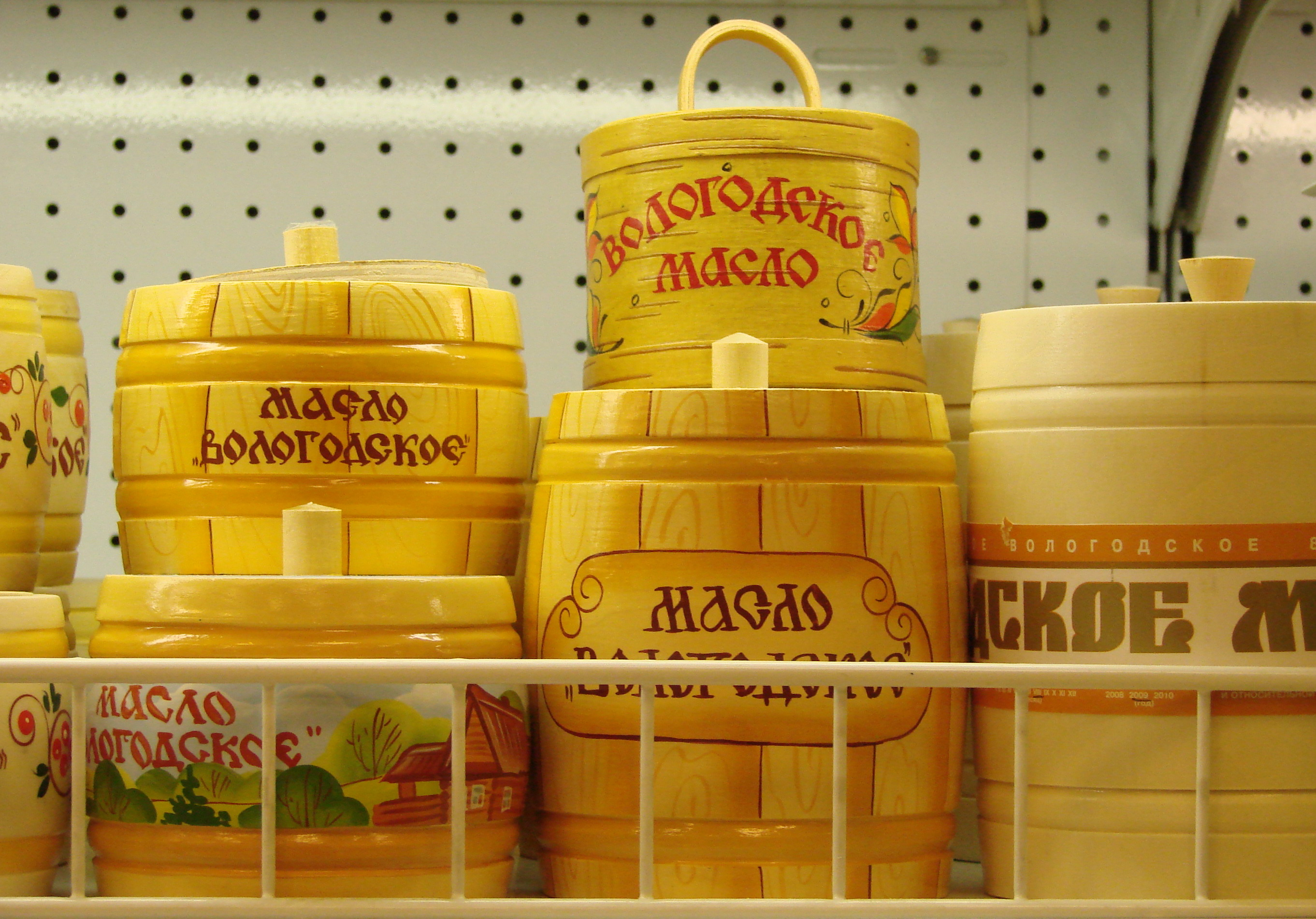 Vologda butter in the supermarket